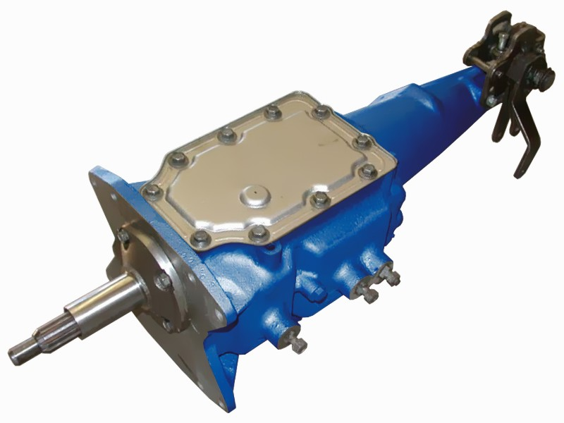 A Ford Design, Toploader Transmission is a 4 speed manual gearbox introduced in 1964 by Ford Motor Company. Seen here with a factory shifter mounted rearward on the extension housing, without the linkage, is a unit for a Ford Mustang.